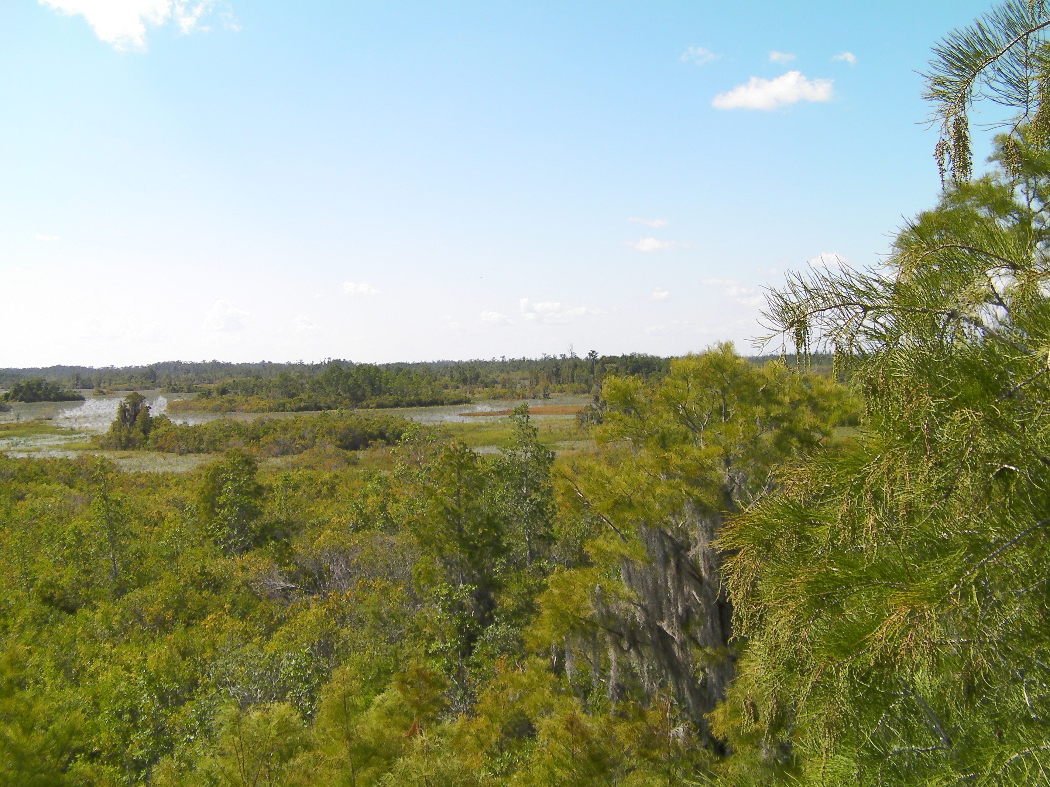 Taxodium ascendens and flooded grasslands, Okefenokee Swamp, Georgia, USA